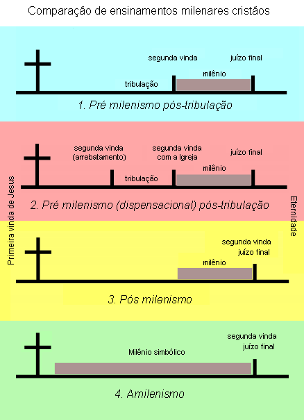 Estatisticas milenares (Escatologia Cristã)